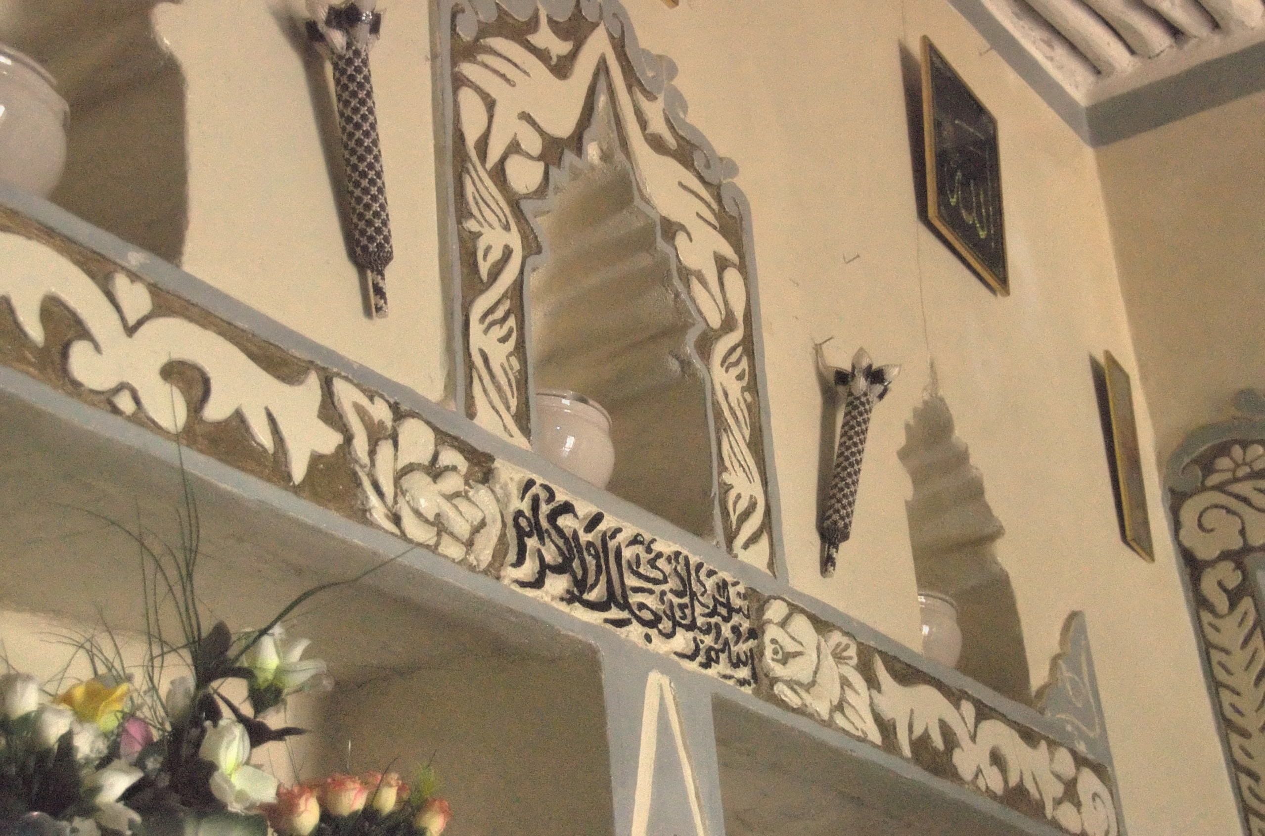 Traditional Harari homes have lots of niches, and they're full of interesting things. I was fascinating by this collection. Harar, Ethiopia.